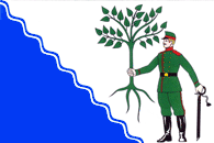 Flag of Novokubansk, Krasnodar Territory, Russia